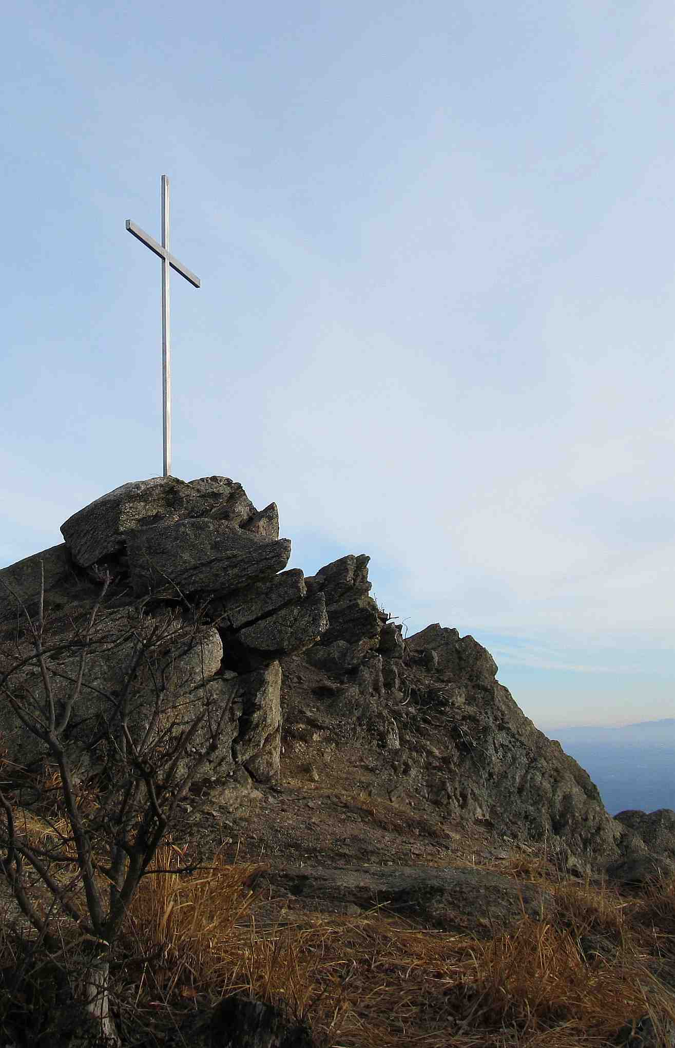 Monte Brunello (TO, Cottian Alps): summit cross